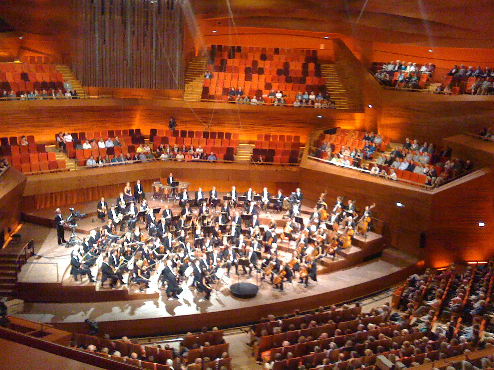 The Main Auditorium of the Copenhagen Concert Hall desinged by Jean Nouvel